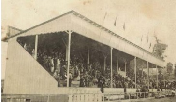 Match between Atlantico and Internacional in 1941.